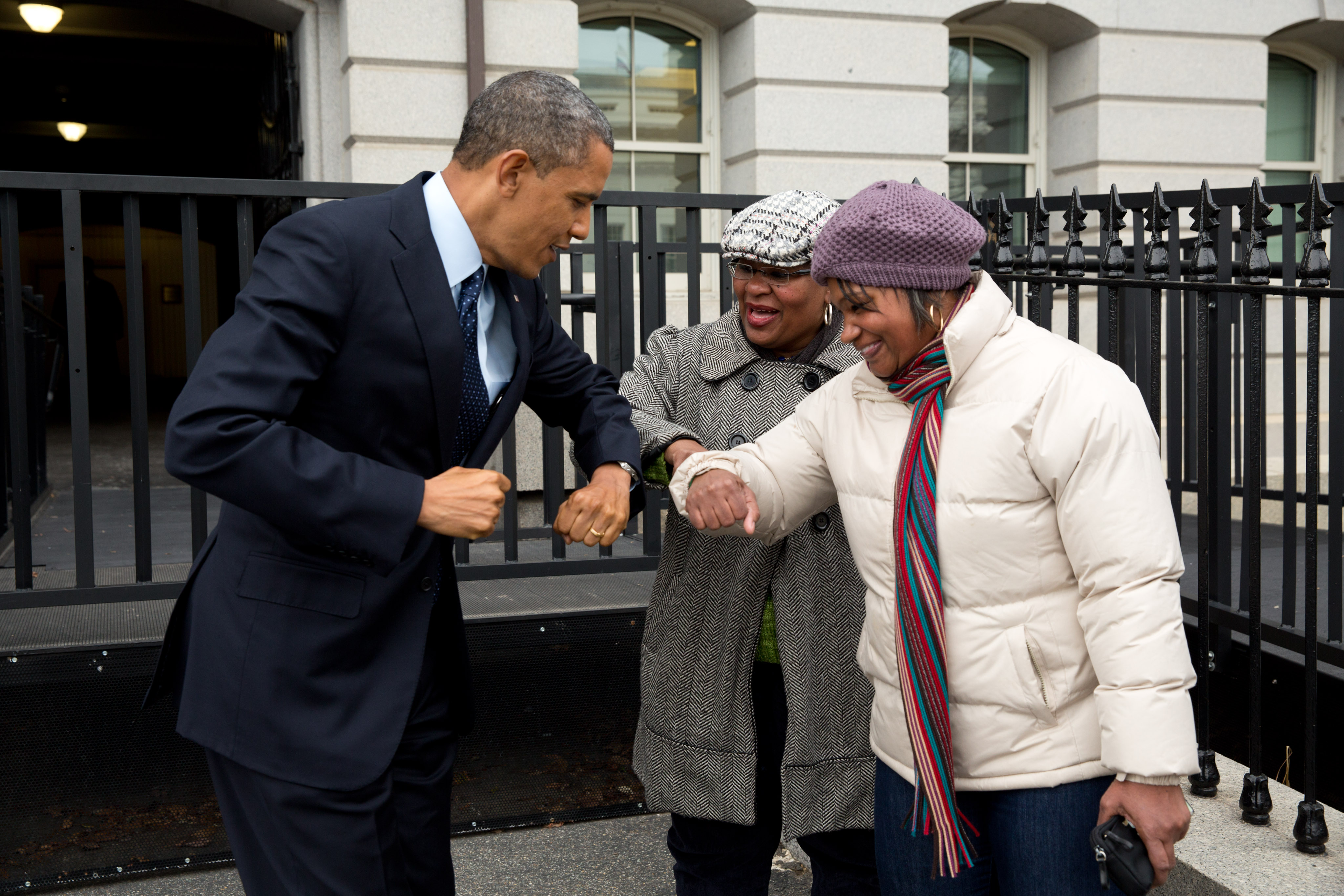 Following remarks in the Eisenhower Executive Office Building on the United States fiscal cliff negotiations, United States President Barack Obama greeted a couple of General Services Administration workers as he walked back across West Executive Avenue to the West Wing of the White House. He gave them an elbow-bump, because he had just rubbed sanitizer on his hands.